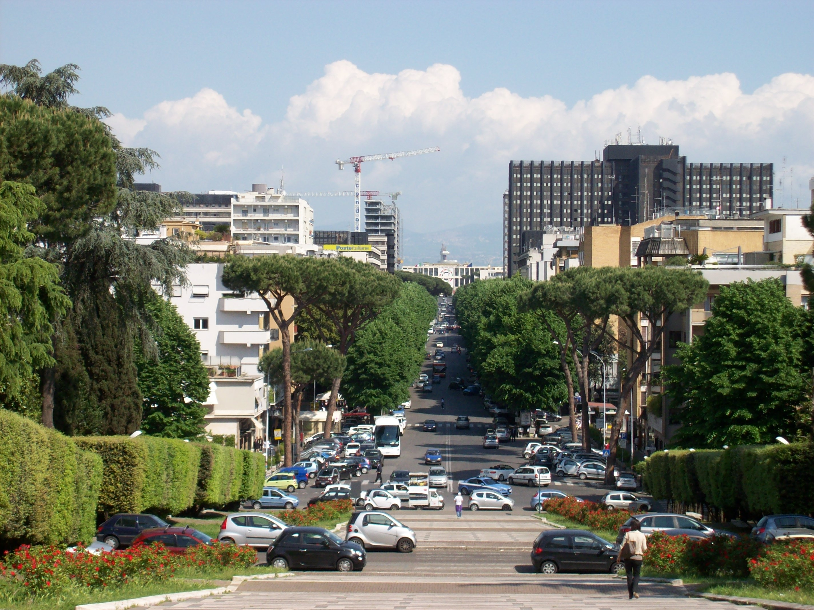 A view of Viale Europa in Rome, from the top of the escalade of the St. Peter and Paul's Church